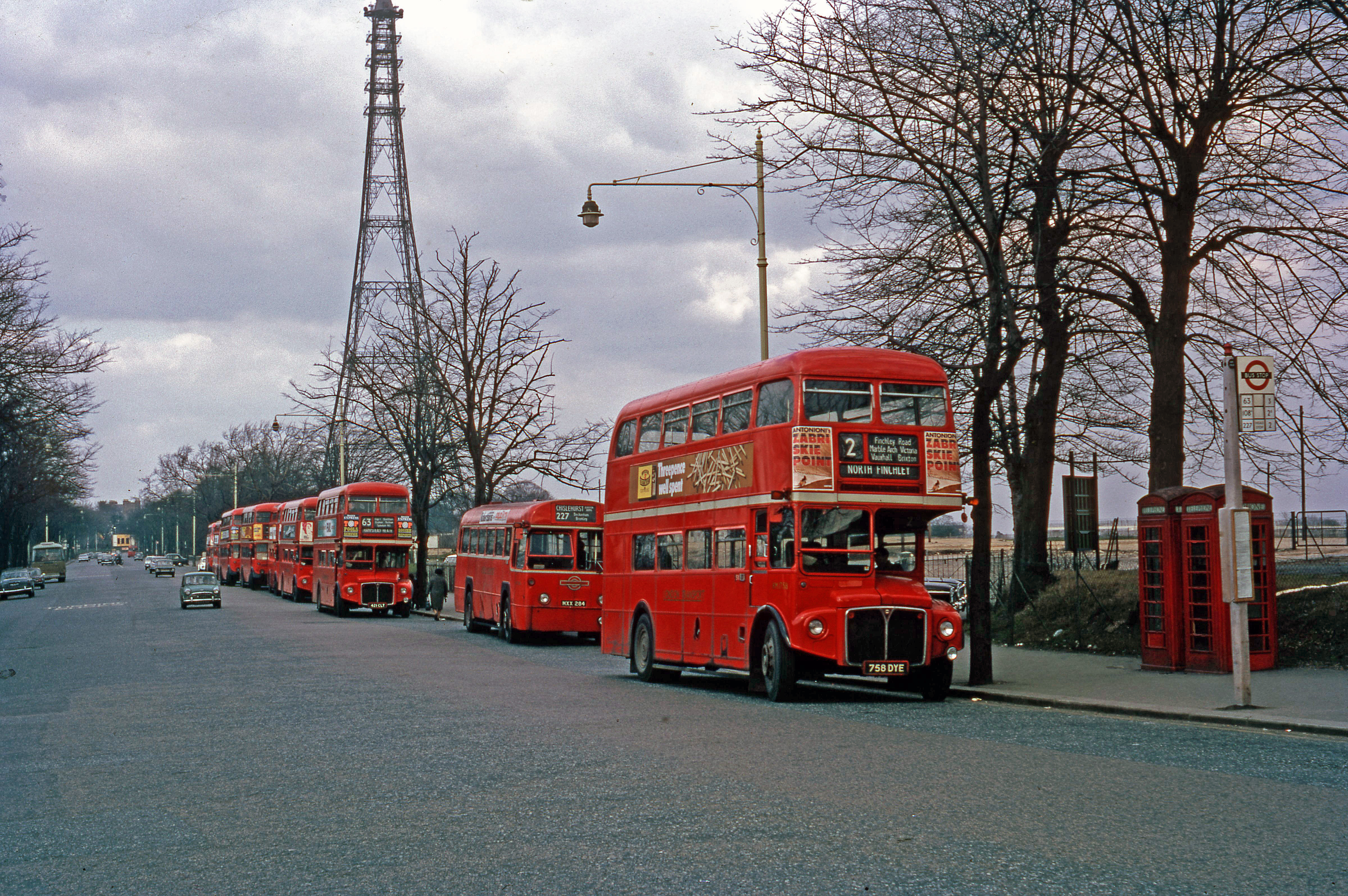 London Transport buses lined up at Crystal Palace, taken on Kodachrome on 2 Apl 1971